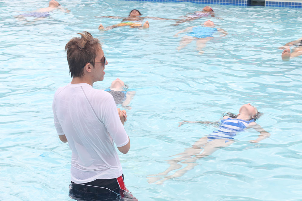 A lifeguard leads the World's Largest Swimming Lesson at Upton Hill pool in Arlington, VA on June 14, 2012